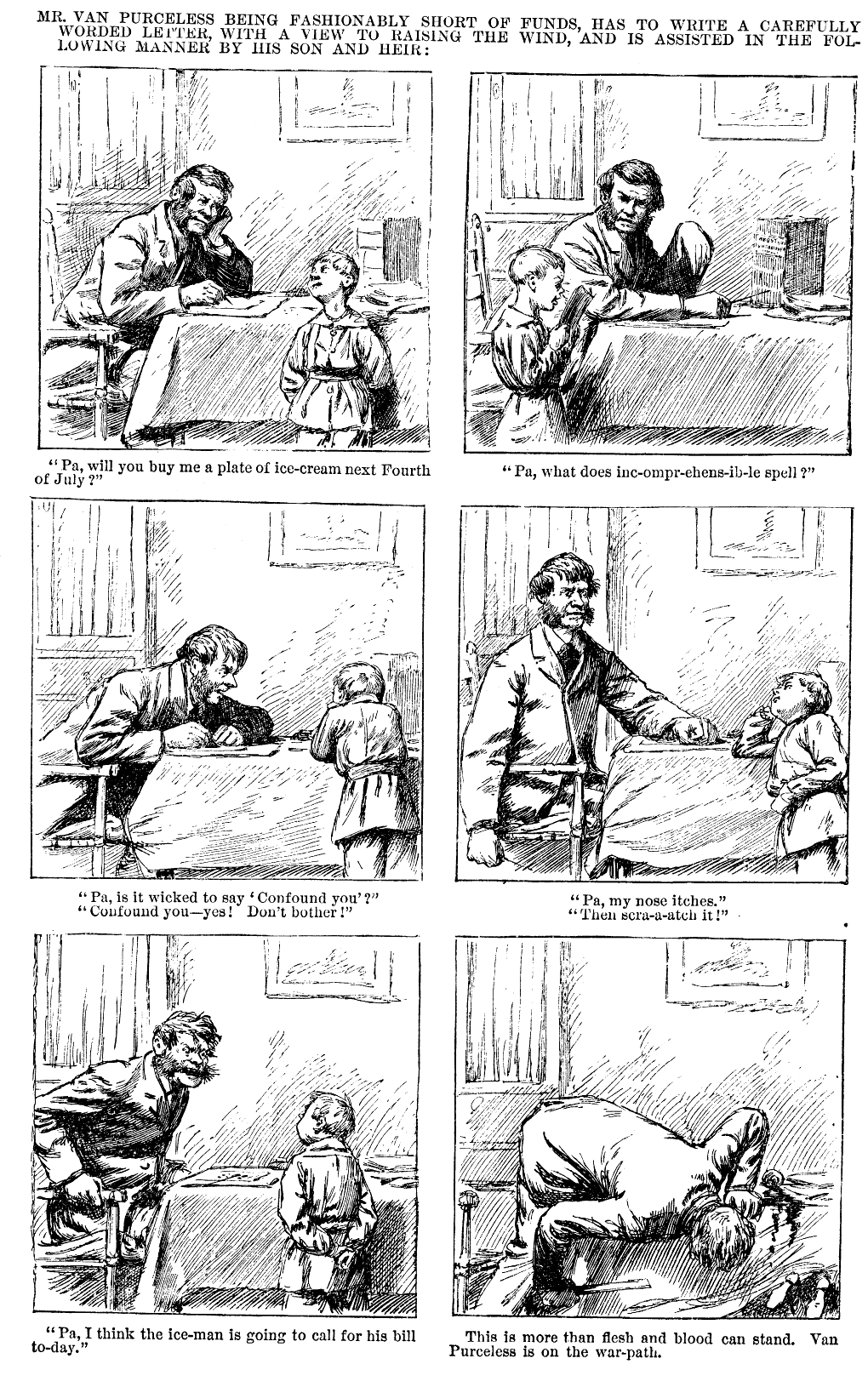 a comic by Arthur Burdett Frost